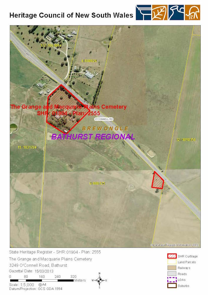 The Grange and Macquarie Plains Cemetery: SHR Plan 2555